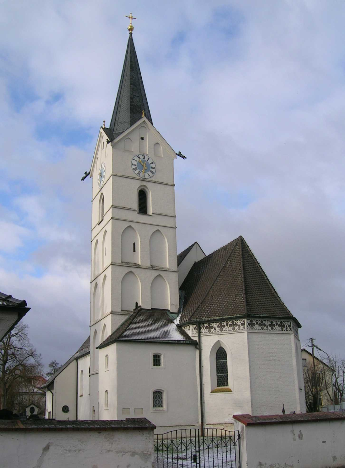 Catholic Church in Volkmannsdorf, Wang.